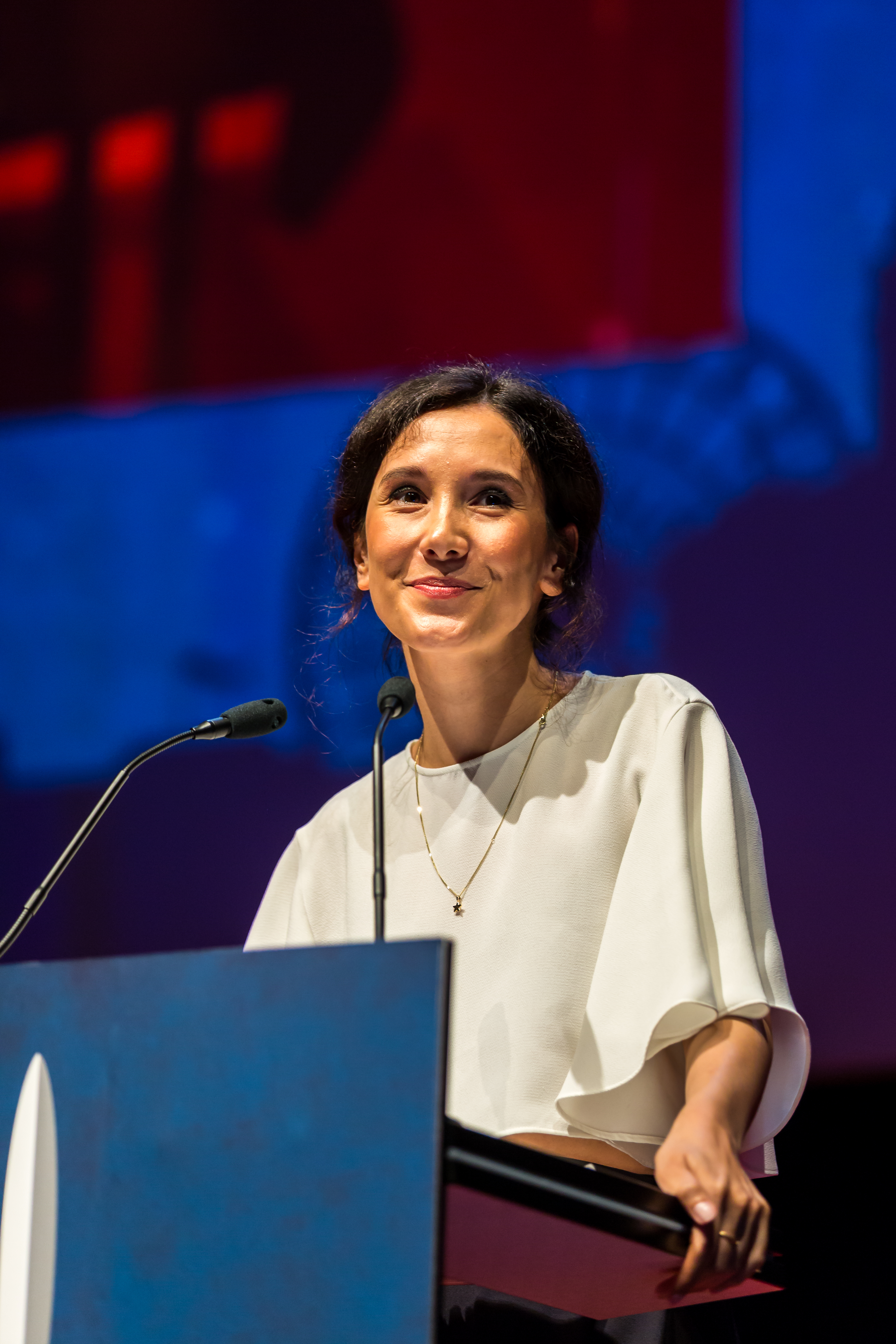 Sibel Kekilli at the Hugo Awards Ceremony, Worldcon, Helsinki.